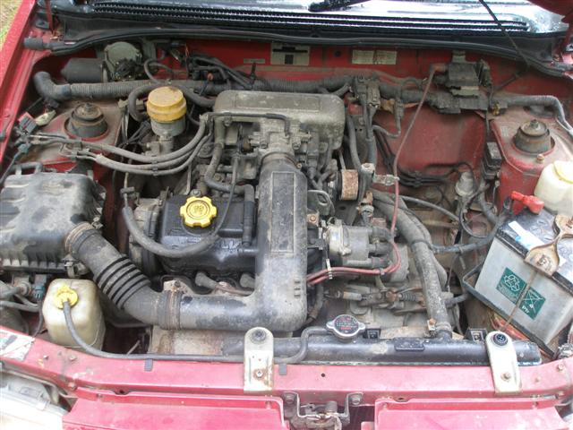 Subaru EF12 engine with multi-point fuel injection in a 1993 Subaru Justy